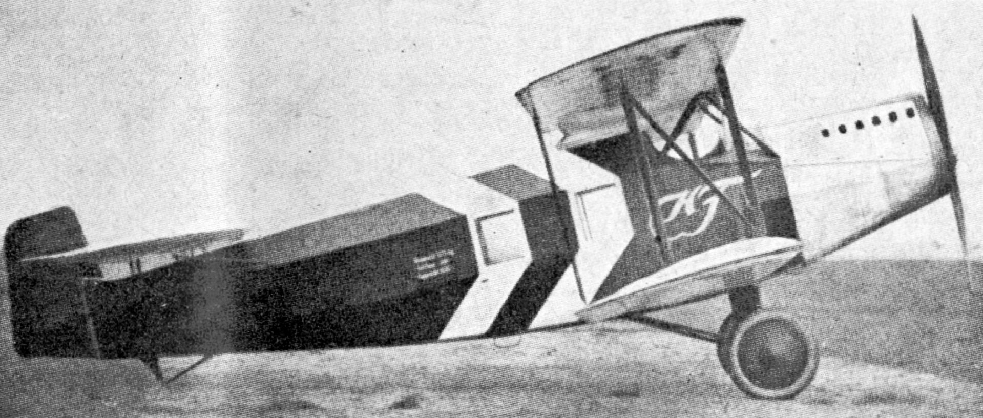 Albatros L.72C photo from L'Air August 15,1927